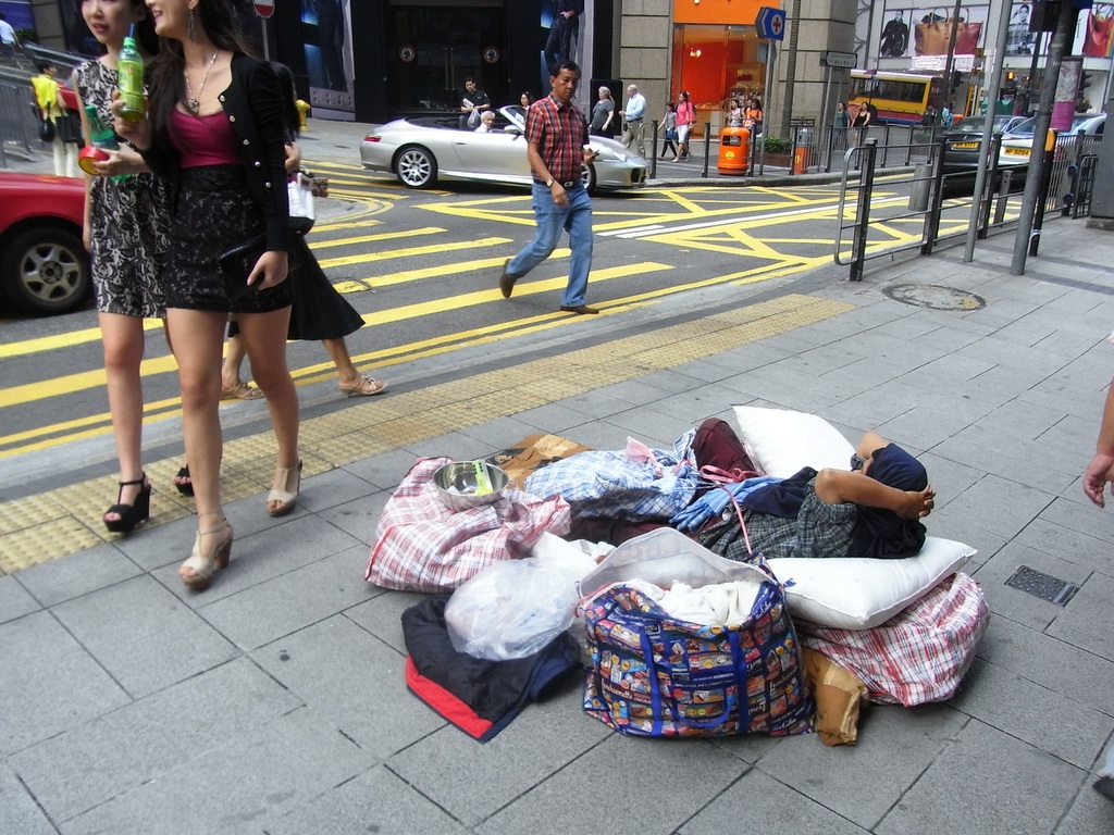 Occupy Movement & lover in Central Hong Kong